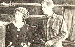 Still from the American western film Ridin' Wild (1922) with Edna Murphy and Hoot Gibson, on page 47 of the December 2, 1922 Exhibitor's Trade Review.